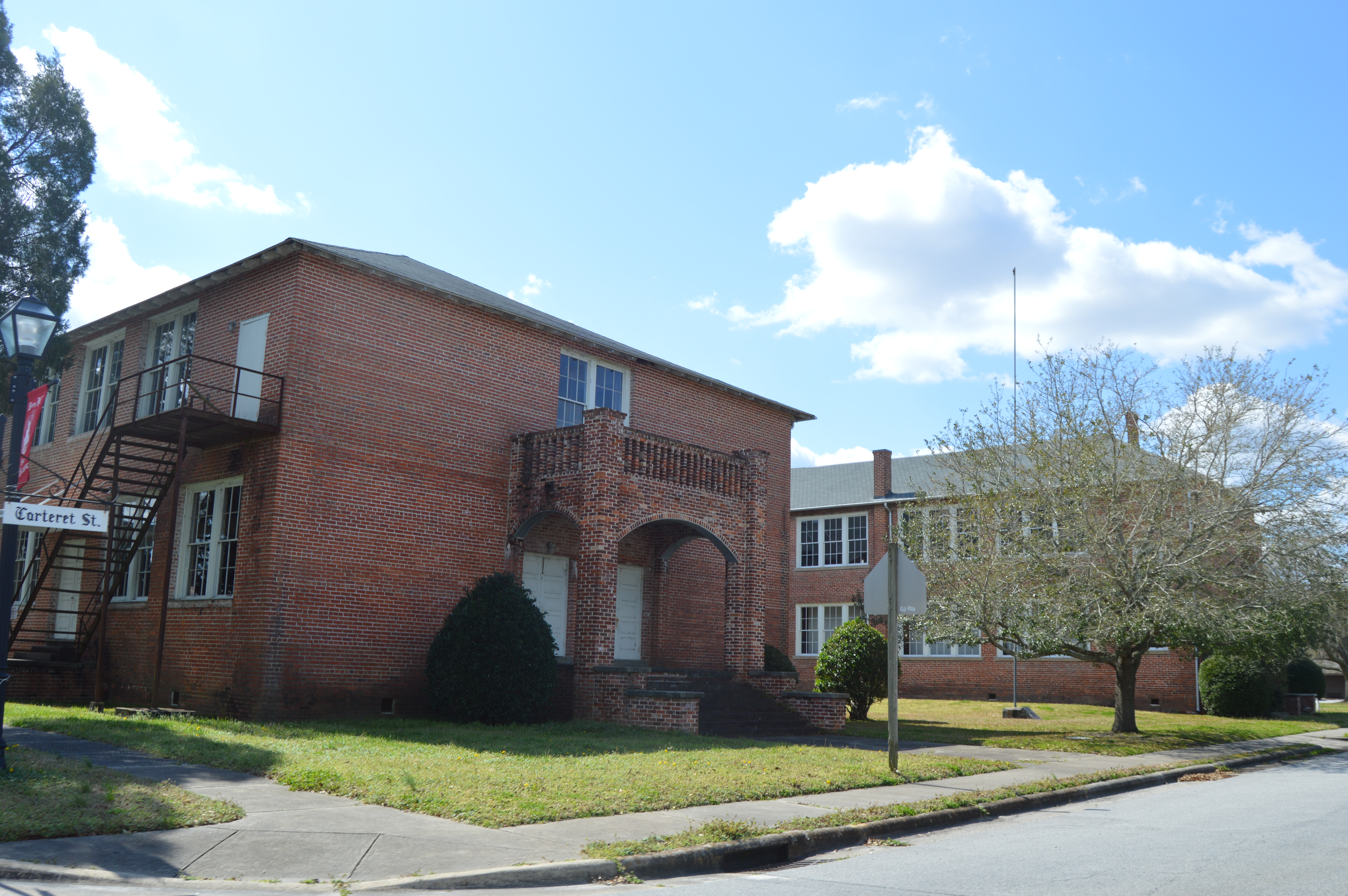 Northern side of the former Bath School, located on Carteret Street (North Carolina Highway 92) west of King Street in Bath, North Carolina, United States. Built in 1918, it is listed on the National Register of Historic Places.